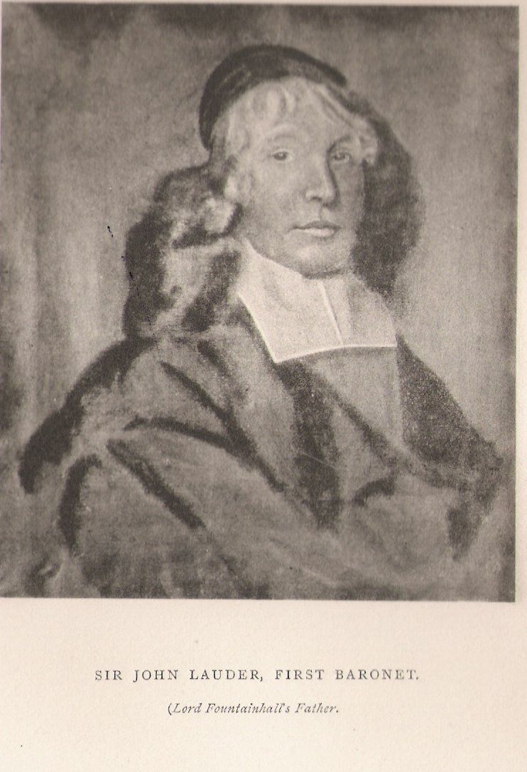 Scan of an engraving of a painting still in the possession of the Dick Lauder family. Engraving appears in Journals of Sir John Lauder, Lord Fountainhall, Scottish History Society, Edinburgh, 1900, which is out of copyright. David Lauder 10:43, 14 February 2007 (UTC)